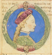 Alda d'Este, lady of Mantua